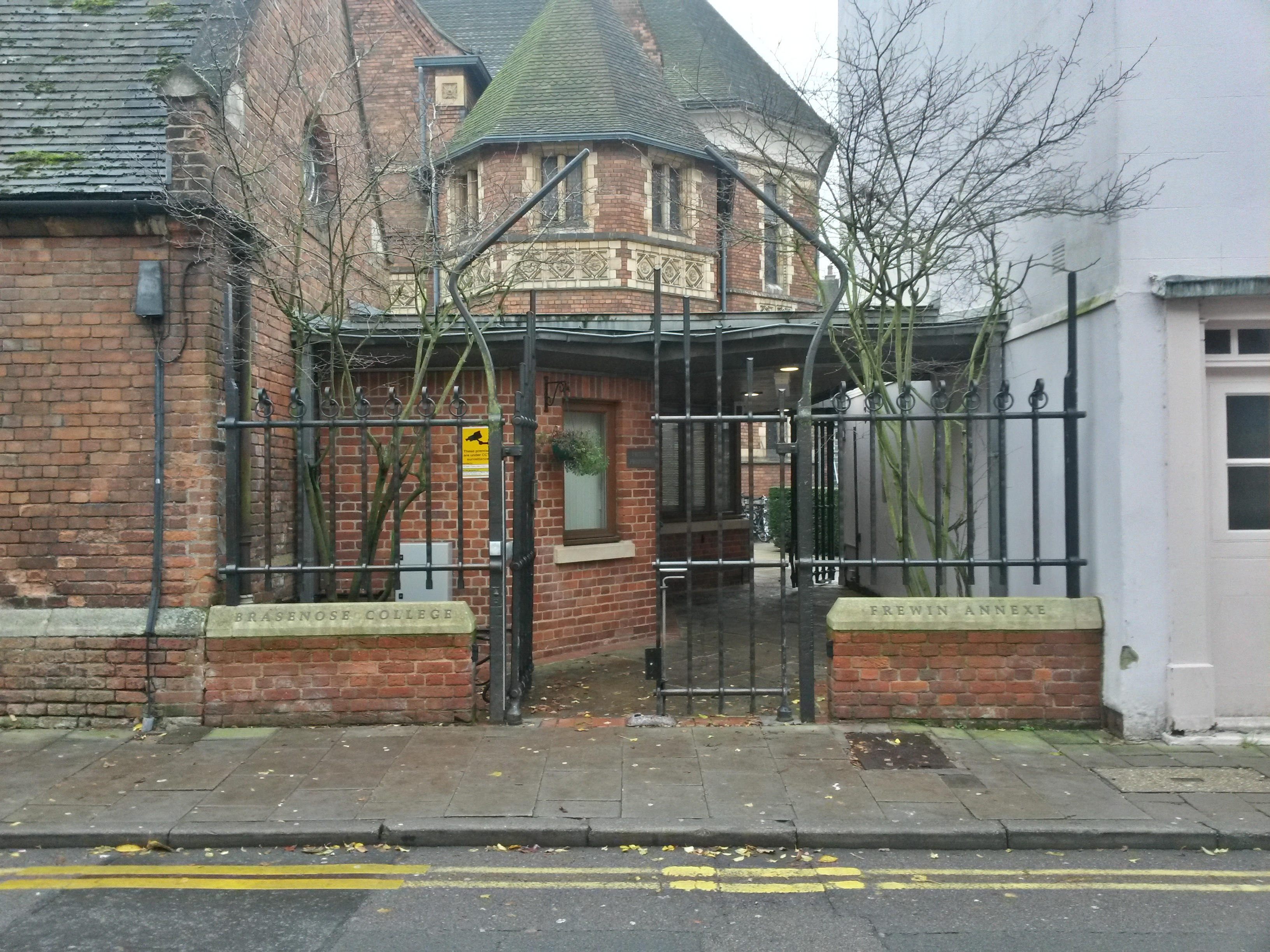 The entrance to Brasenose College's Frewin Annexe, located on St Michael's Street, Oxford.